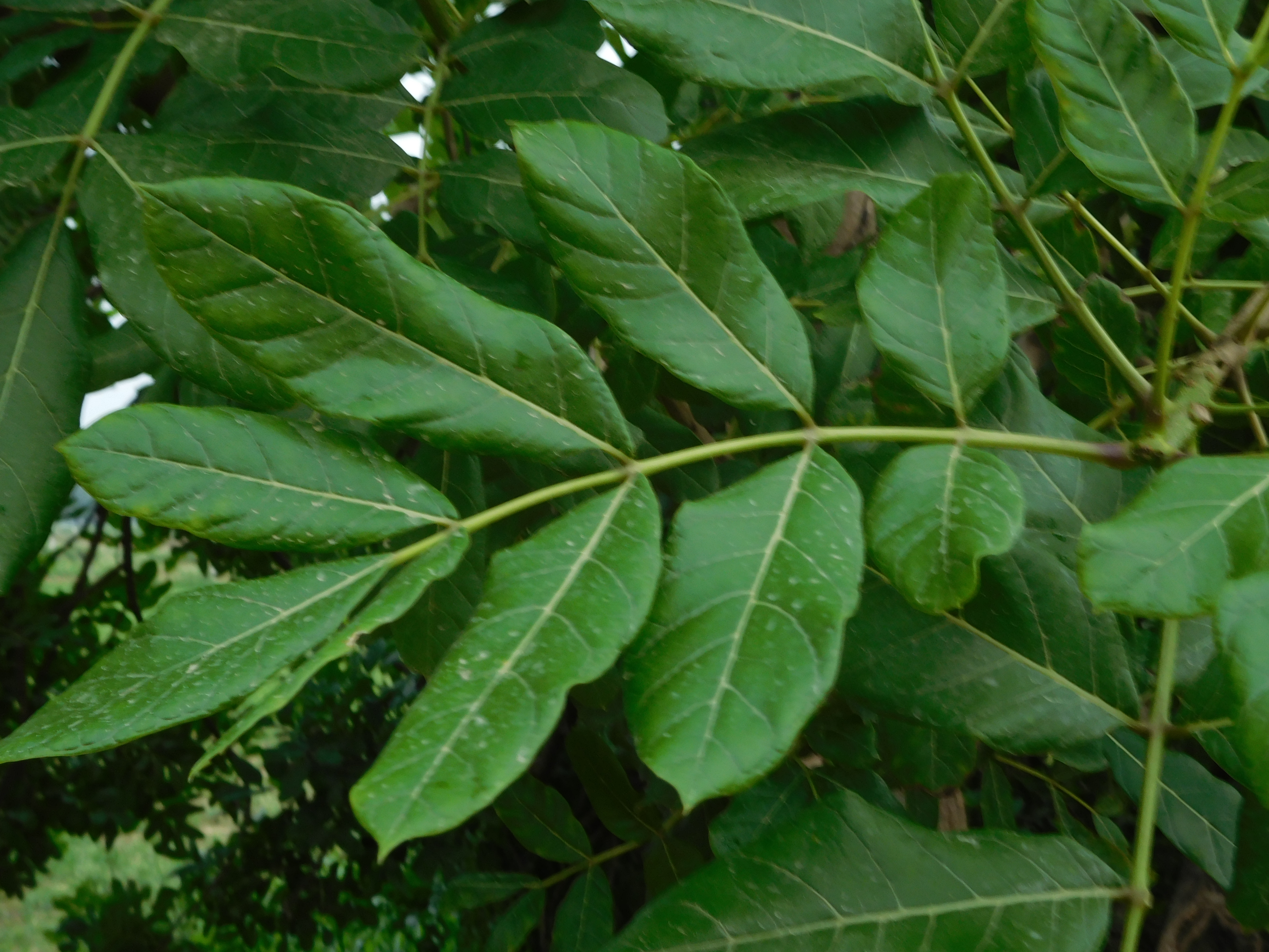 Leaves of Balamkheera